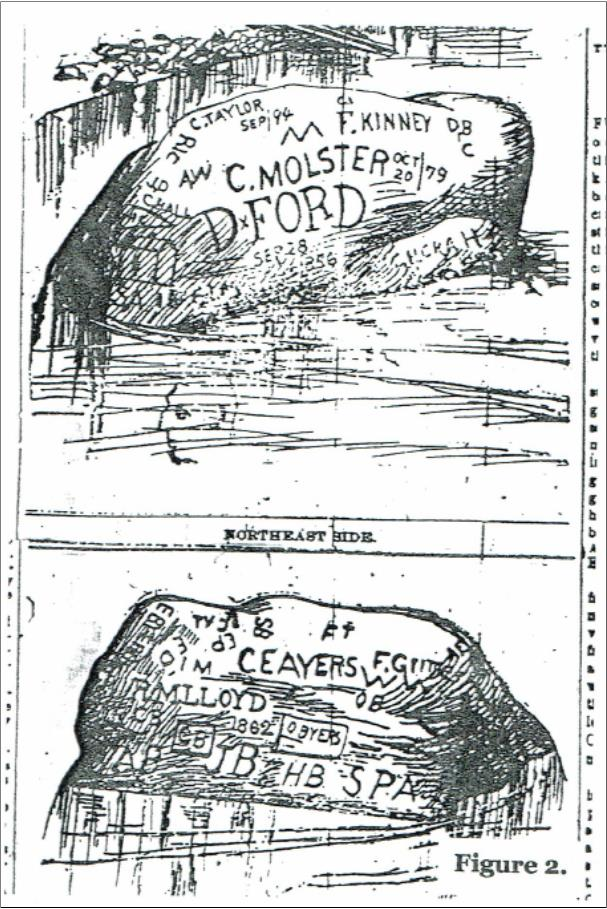 Newspaper engraving accompanying article about Portsmouth Indian Head Rock. Retrieved from microfilm.